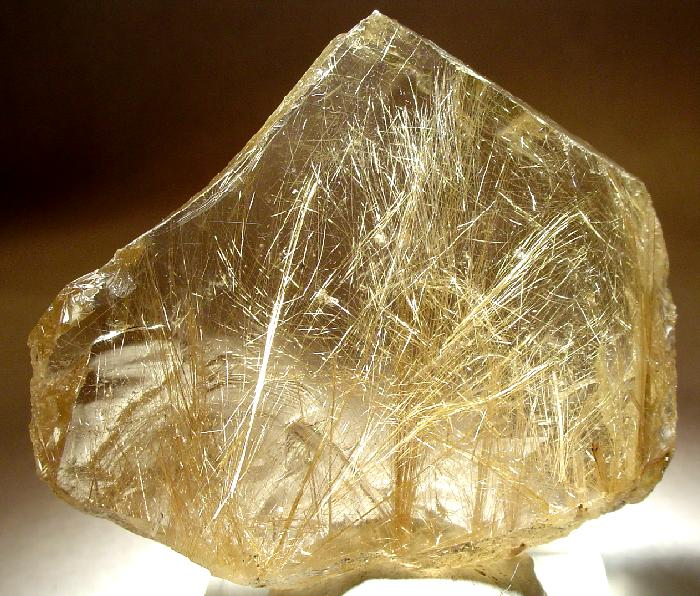 Quartz (Var.: Rutilated Quartz) Locality: Bahia, Northeast Region, Brazil (Locality at ) A totally transparent, showy quartz crystal fragment with polished front faces, that is filled with highly lustrous golden rutile needles. 7.0 x 6.0 x 1.8 cm